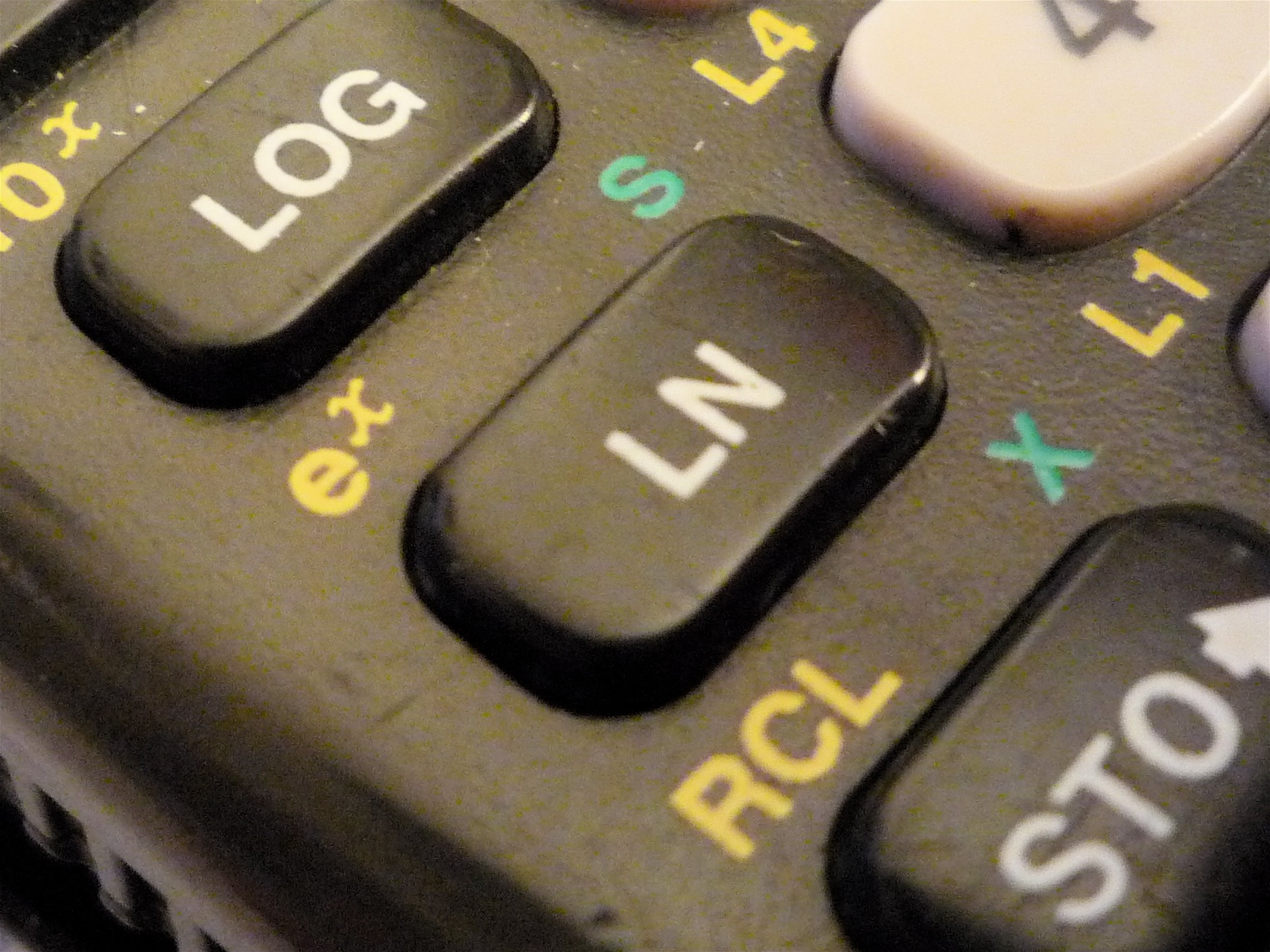 The dreaded ln/e^x scientific calculator key. Photo by Cuesta College Physical Sciences Division instructor Dr. Patrick M. Len.